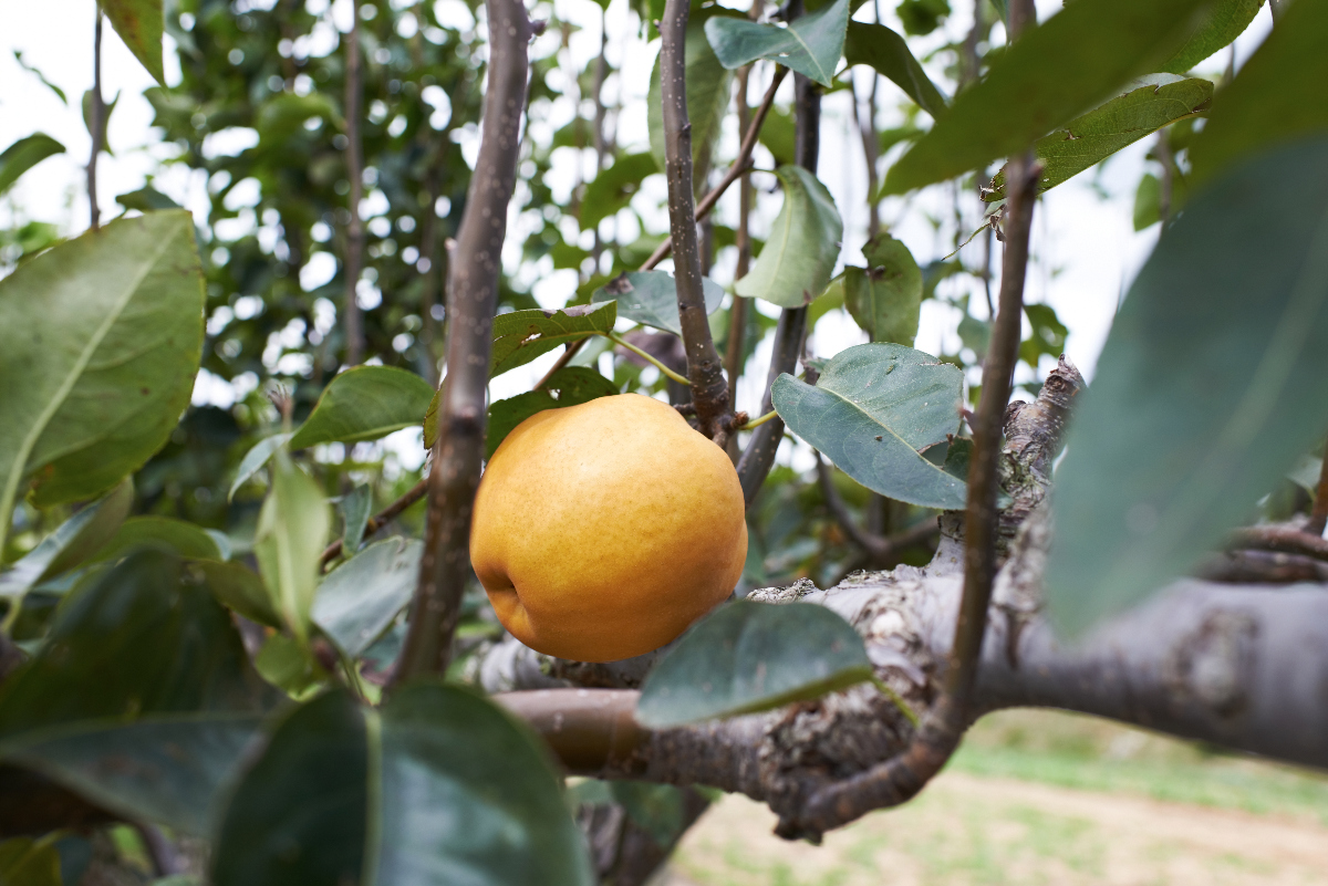 Koreran pear (Pyrus pyrifolia)